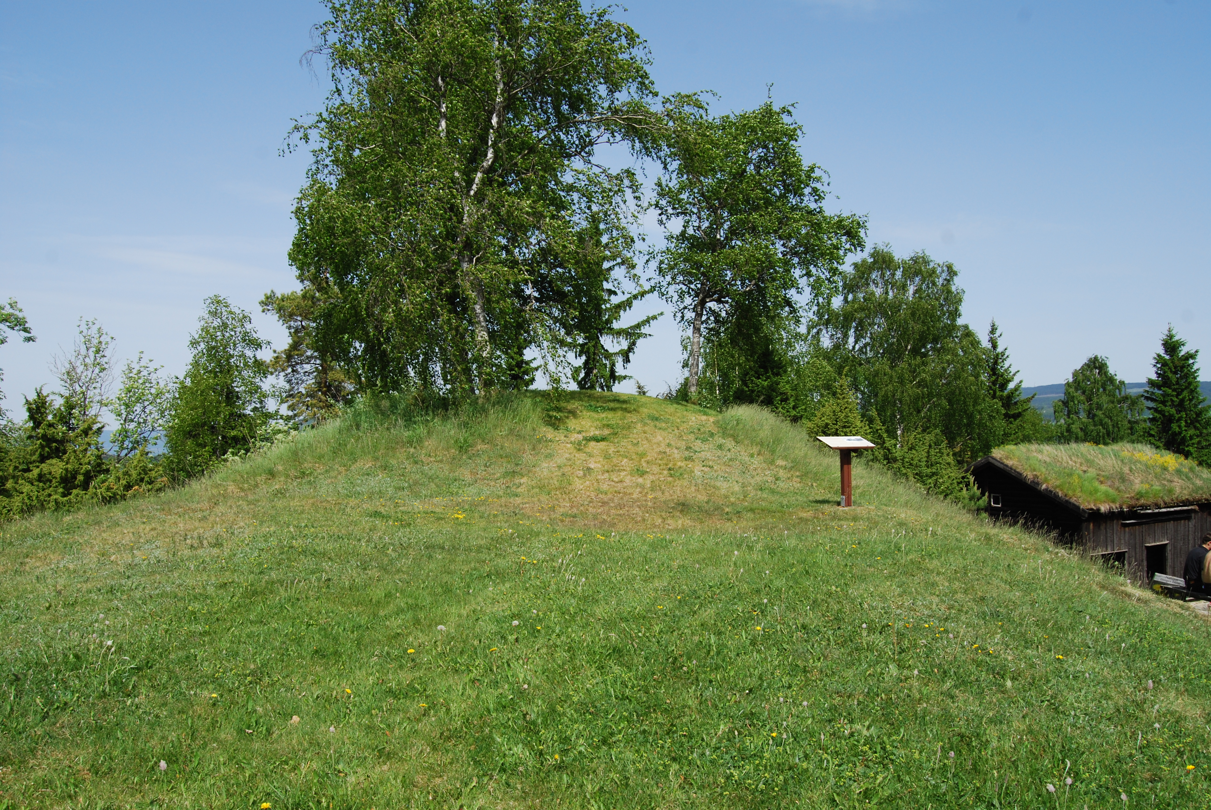 One of the 4 Halfdan's Mounds, this one at Hadeland Folkemuseum where it is rumoured that 1/4 of Halfdan the Blacks body is burried.